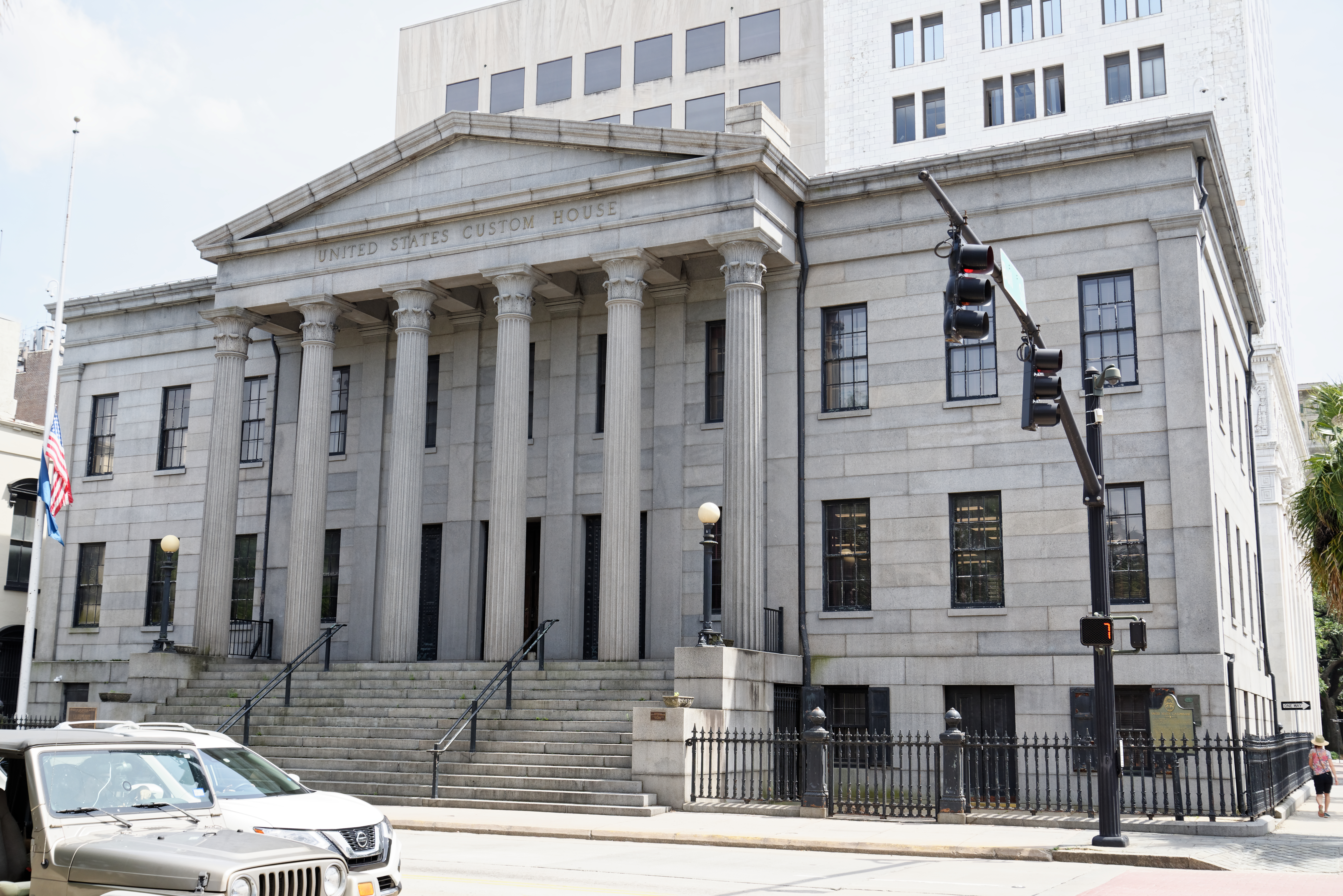 United States Customhouse in Savannah, Georgia, US